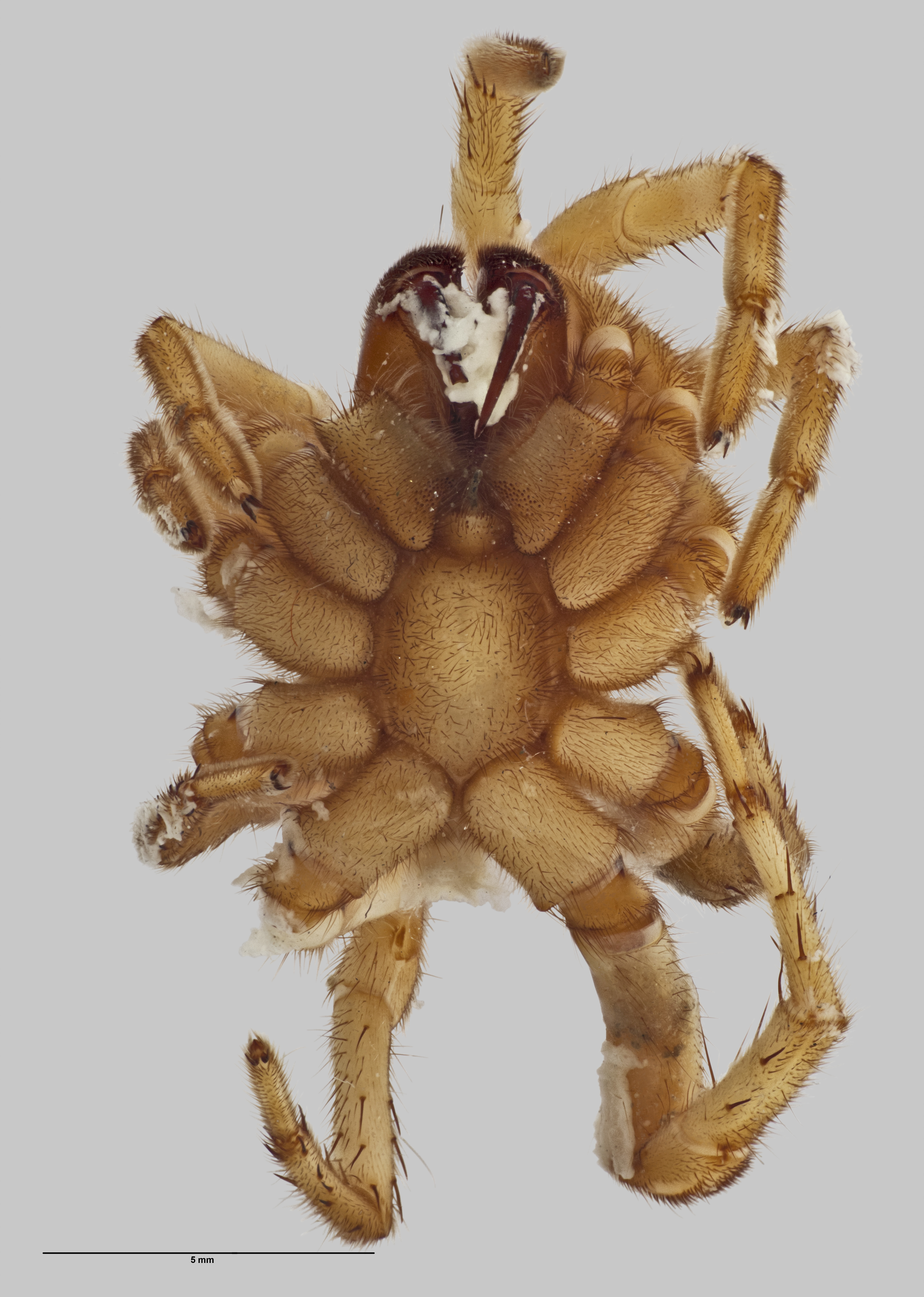 Ventral view of holotype specimen of Stanwellia taranga AMNZ5047